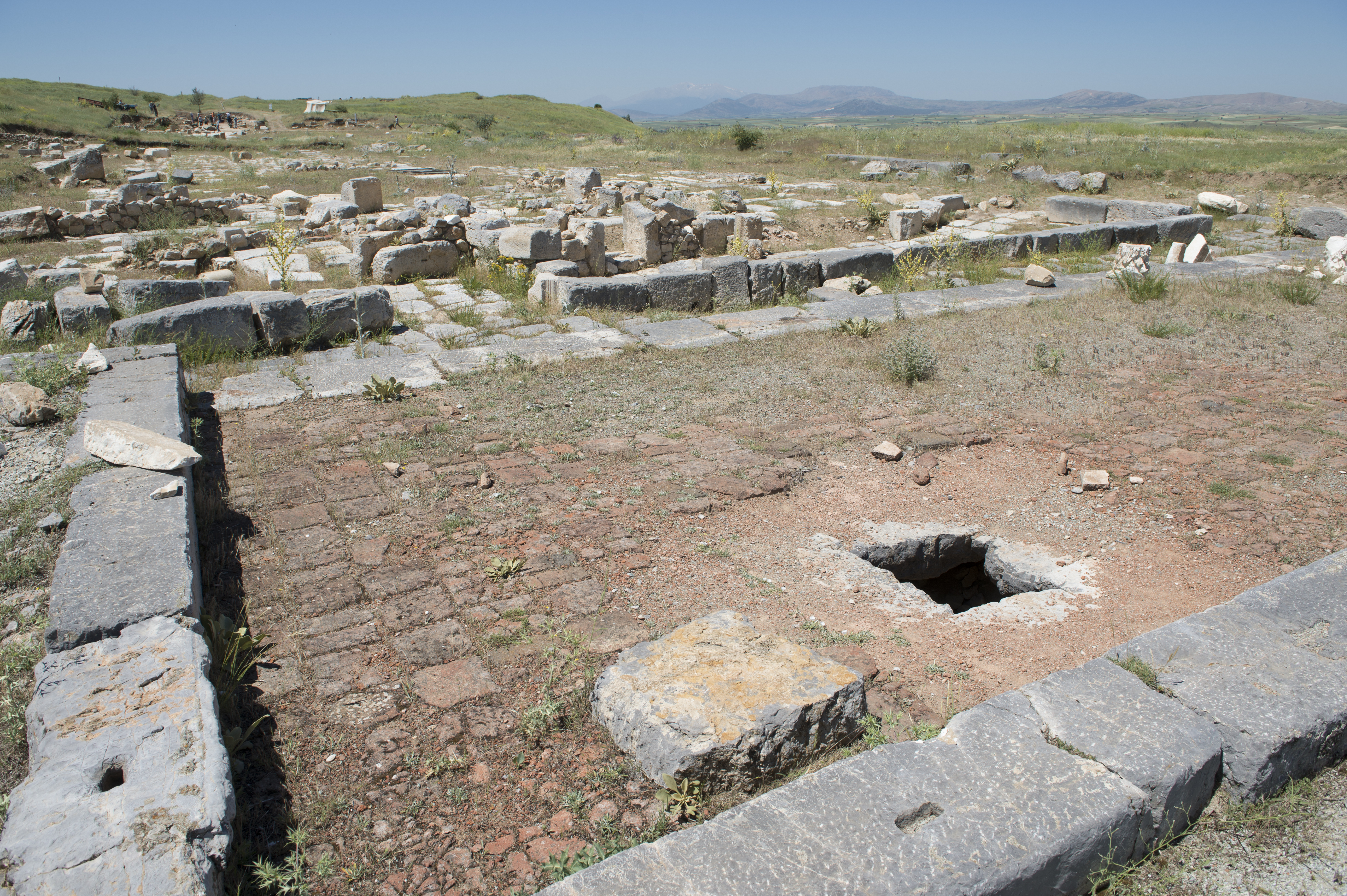 Nymphaeum (Fountain): The building is a wide U-shape. It was built to collect water brought by aqueduct and distribute it throughout the city. The building included a reservoir measuring 27 x 3 m, an ornamented 9 m high façade, and a pool of 27 x 7 m and 1,5 m deep. The monumental fountain is dated to the first half of the 1st century AD. In Pisidia Antiocheia the water, which came from an altitude of 1465m (in the mountains north of the city), was conveyed over a distance of 11 km in channels, through tunnels and on arches of one or two stories, depending of the terrain; the waterway was partly in stone, and partly made of earthenware tubes. As the nymphaeum is at an altitude of 1178m, the drop from the starting point (287 m) gives an average slope of 2,6 %. The water pressure along such a slope is high; so the pressure of flow was lowered by phases, and when the water arrived at the syphon aqueducts at the end of the system, the flow was controlled with a slope of only 0,02 %. As a result of this feat of engineering, 3000 cubic meters of water was distributed to the city daily without any problems for centuries. Correspondent: J.M.Criel, Antwerpen. Sources: ‘Pisidian Antioch’ – Ünal Demirer, archaeologist. (Ankara, 1997) & Personal visits (1994 – 2003).